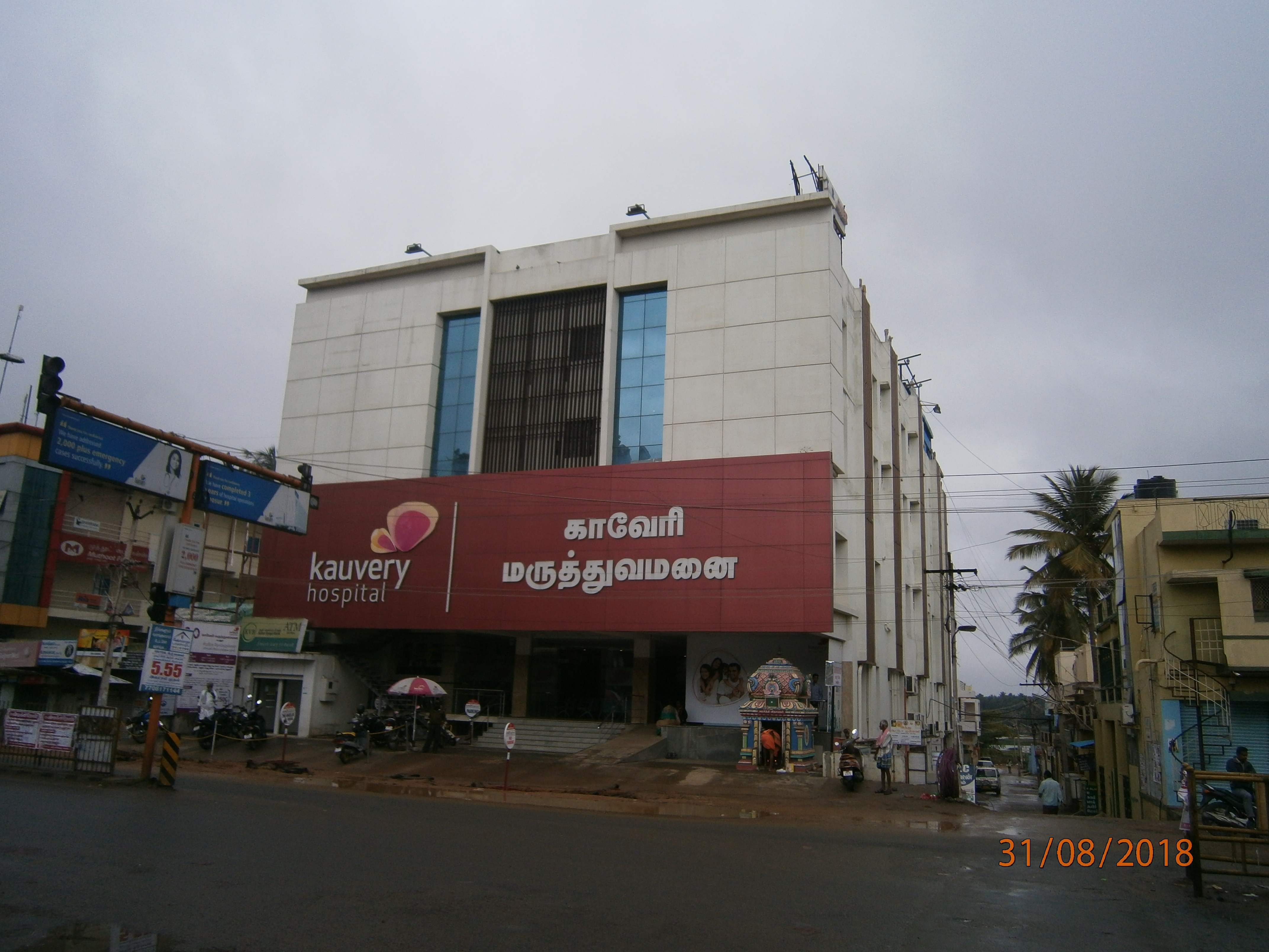 Kauvery Hospital Hosur